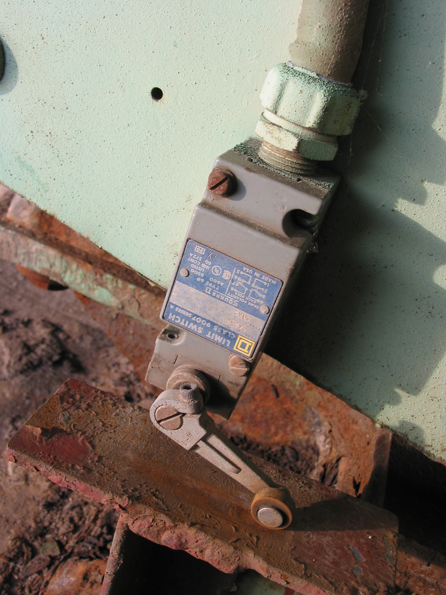 A limit switch at the base of the southwest side of the Cherry Street bridge in Toronto. This is what lets the bridge control system know that the bridge is fully closed.